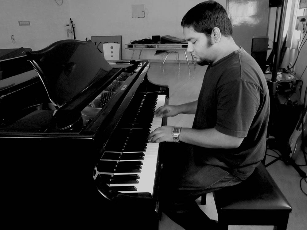 Rahi Chakraborty playing the piano at A.R.Rahman's KM Music Conservatory before a performance